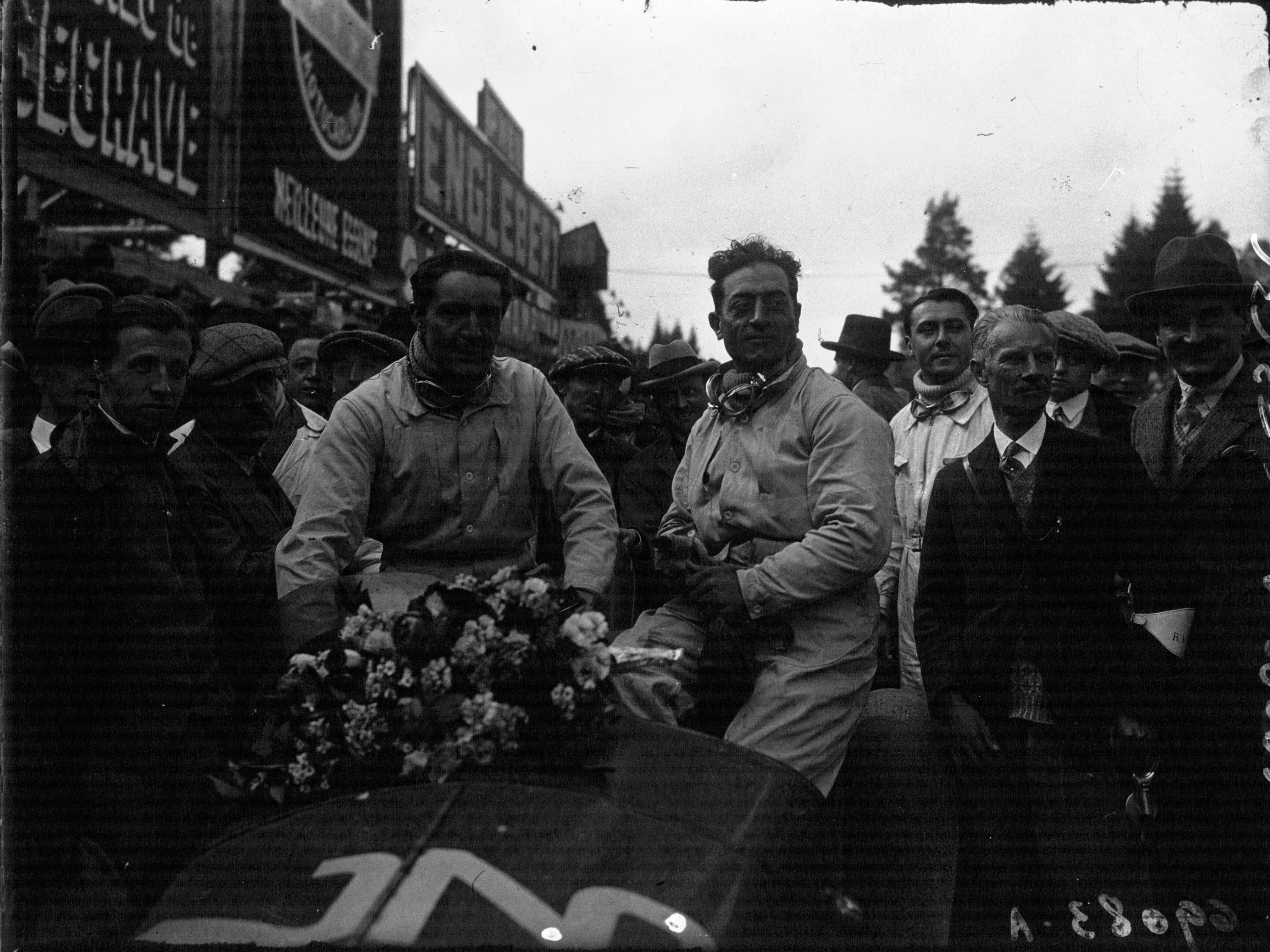 Robert Benoist and Attilio Marinoni at the 1929 24 Hours of Spa.